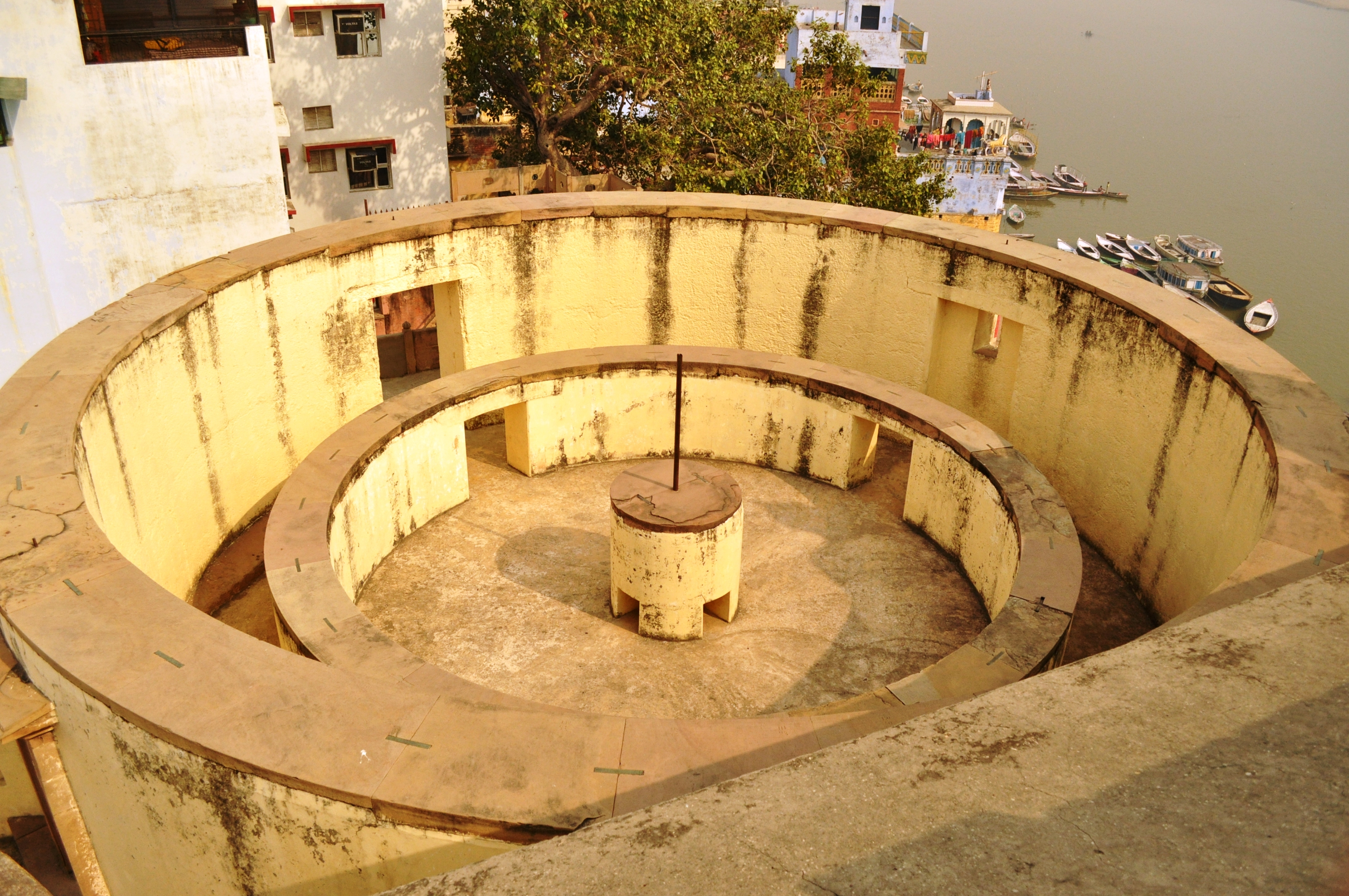 Observatory of Mansingh